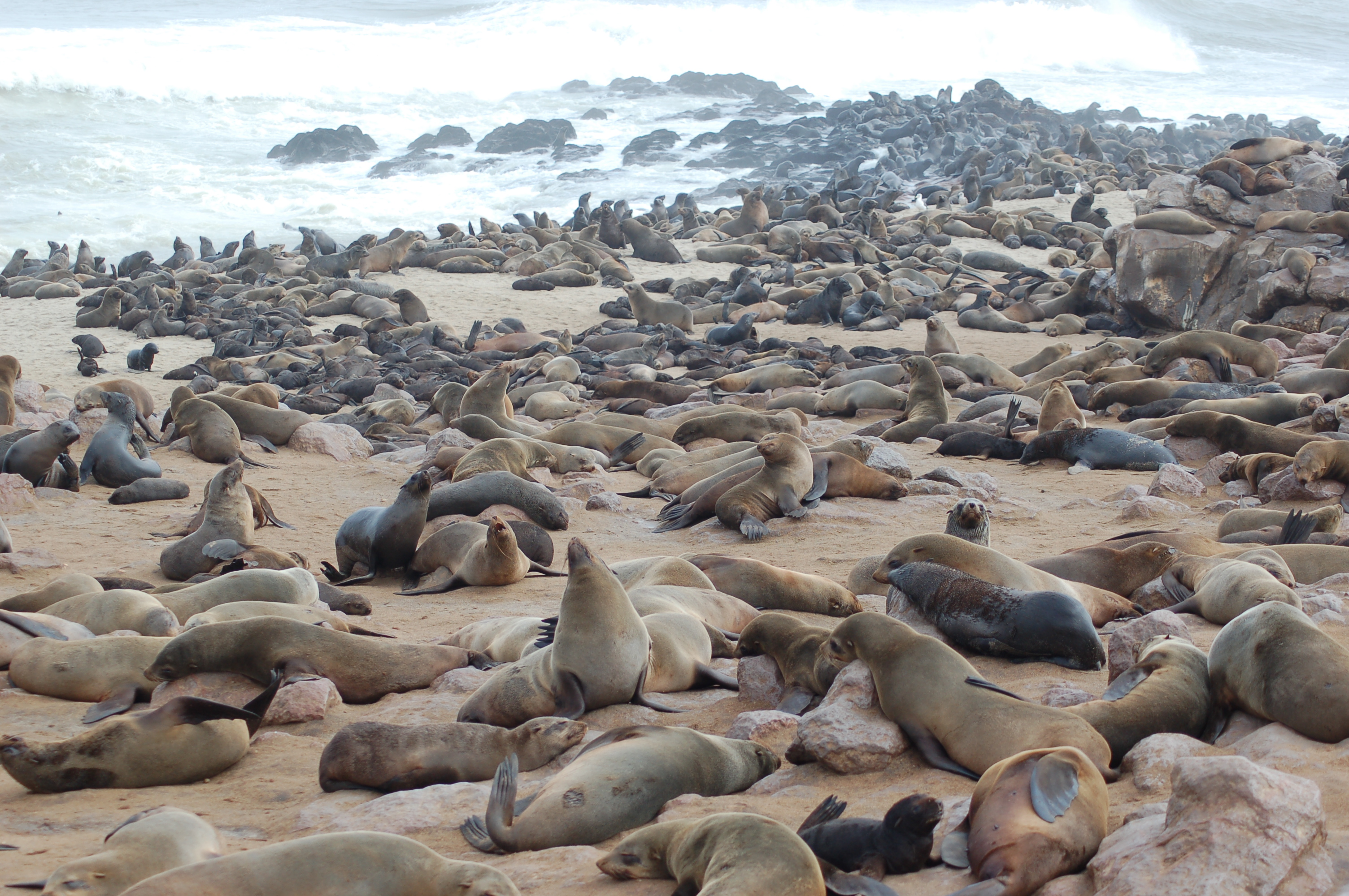 Seals at Cape Cross, Namibia